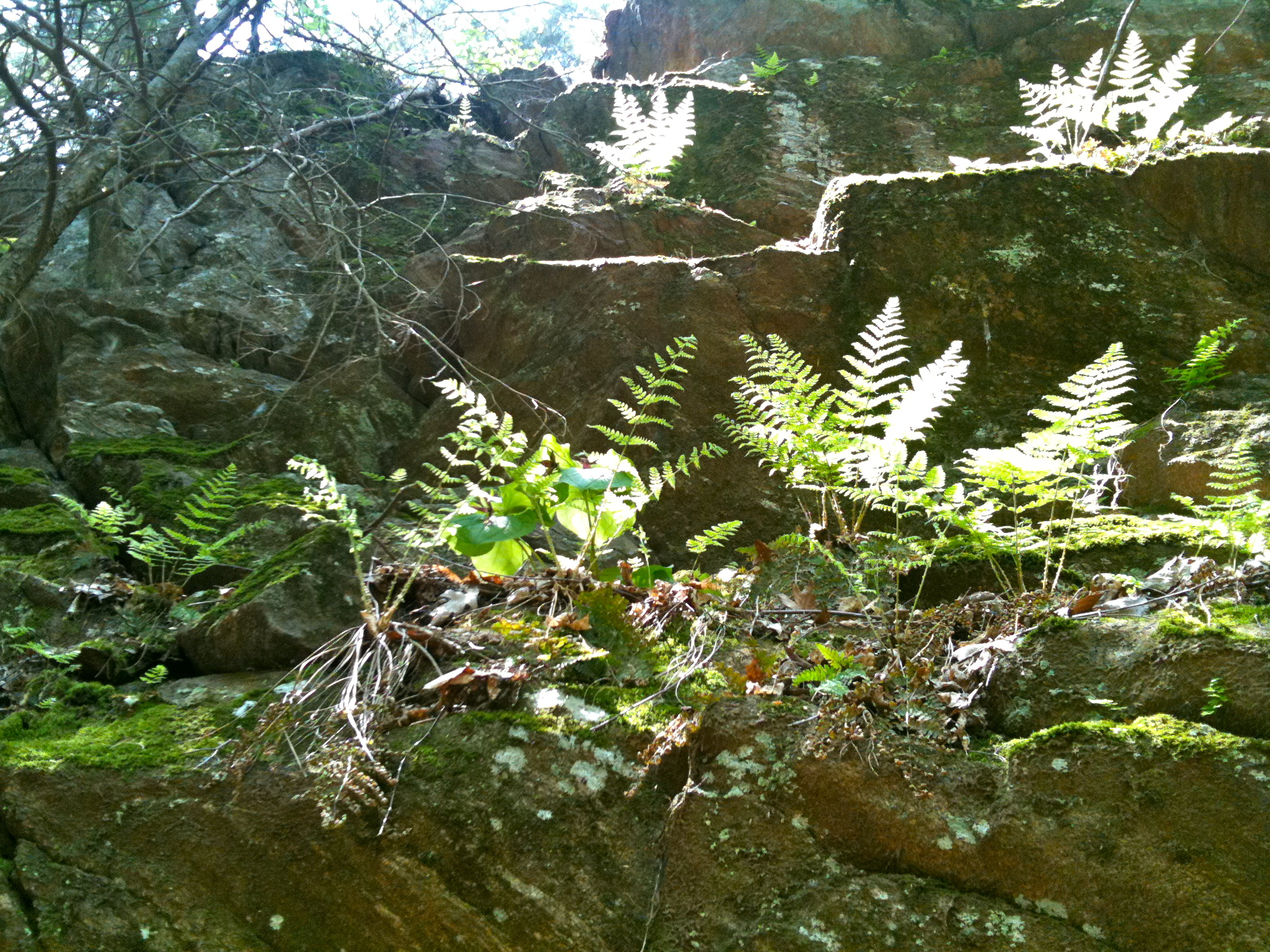 Jericho Blue-Blazed Trail. Ledges with ferns on climb up ravine mid-point on the Jericho Trail.